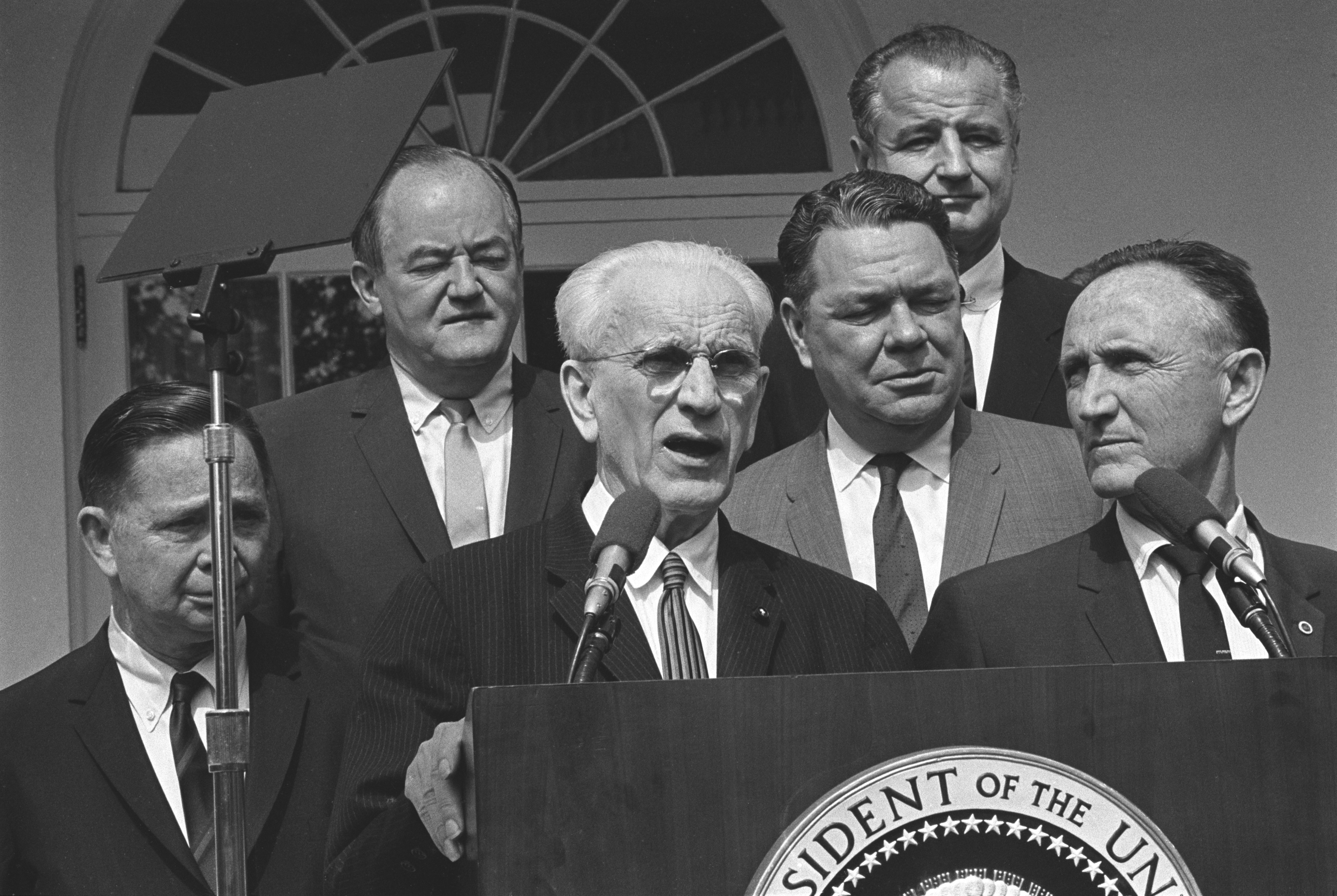 Democratic Congressional leaders give statement to the press after breakfast meeting on Vietnam with Pres. Lyndon B. Johnson. Posing behind podium (L-R) Congr. Carl Albert, V.P. Hubert Humphrey, Speaker John McCormack (speaking), Congr. Hale Boggs, Sen. George Smathers, Sen. Mike Mansfield. Rose Garden, White House, Washington, DC. 07/27/1965